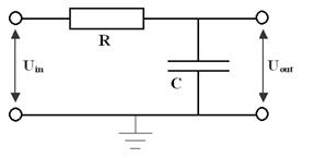 Circuito RC